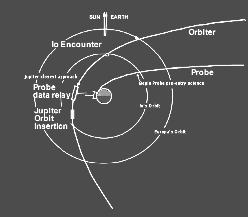 Galileo Orbiter and Probe Arrival at Jupiter